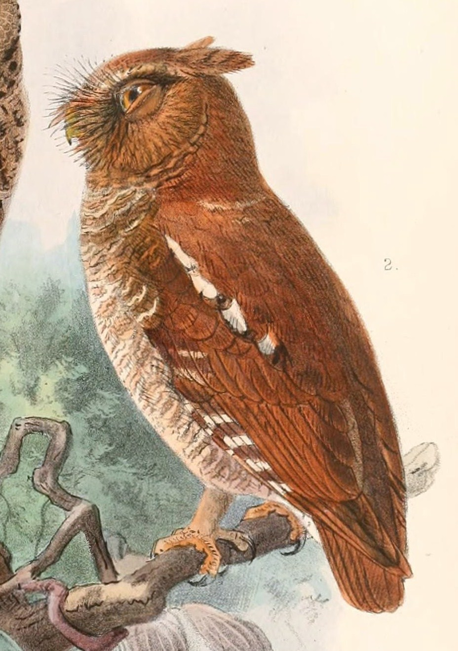 « Pisorhina alfredi » = Otus alfredi (Flores Scops Owl)